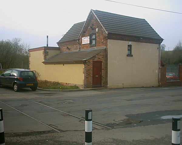 Dissused Grange Lane Station, Sheffield in 2006.